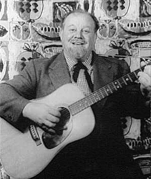 Burl Ives photographed by Carl Van Vechten, 1955. From the collection of the Library of Congress and in the public domain